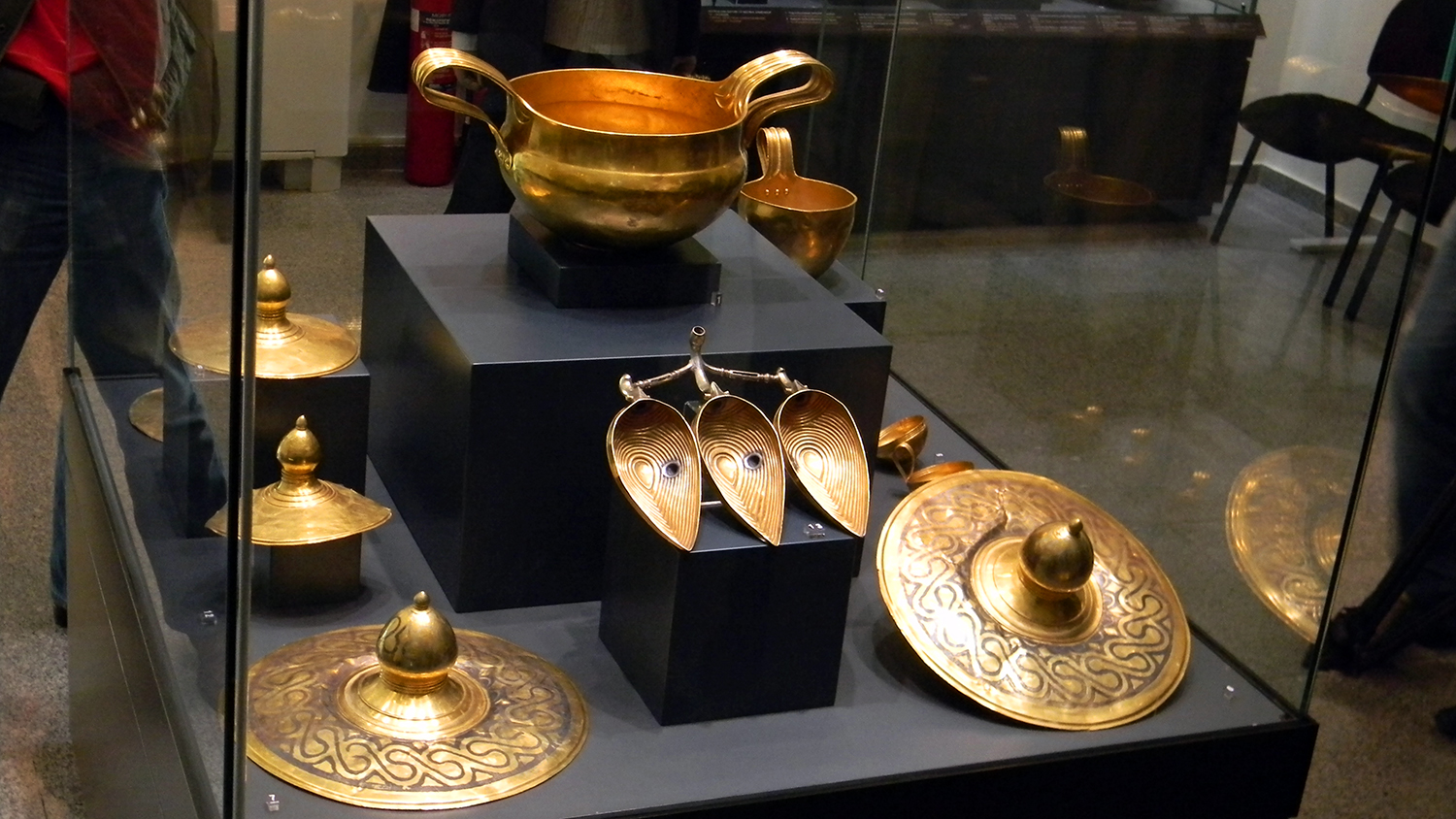 A photo from an exhibiton of the Valchitran Thracian tresure in the Plovdiv history museum